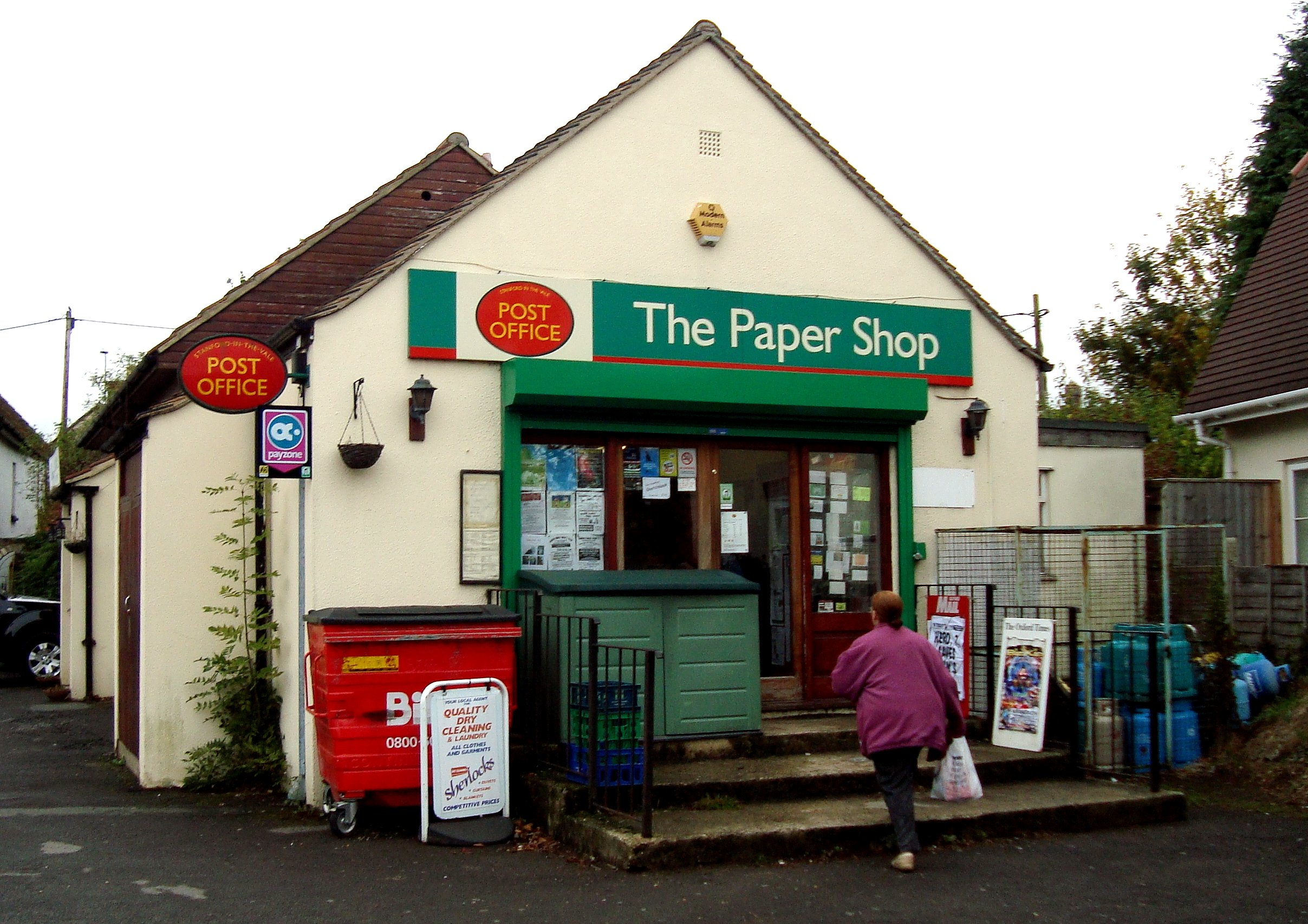 Post Office at Stanford in the Vale ... shop not really made of paper.